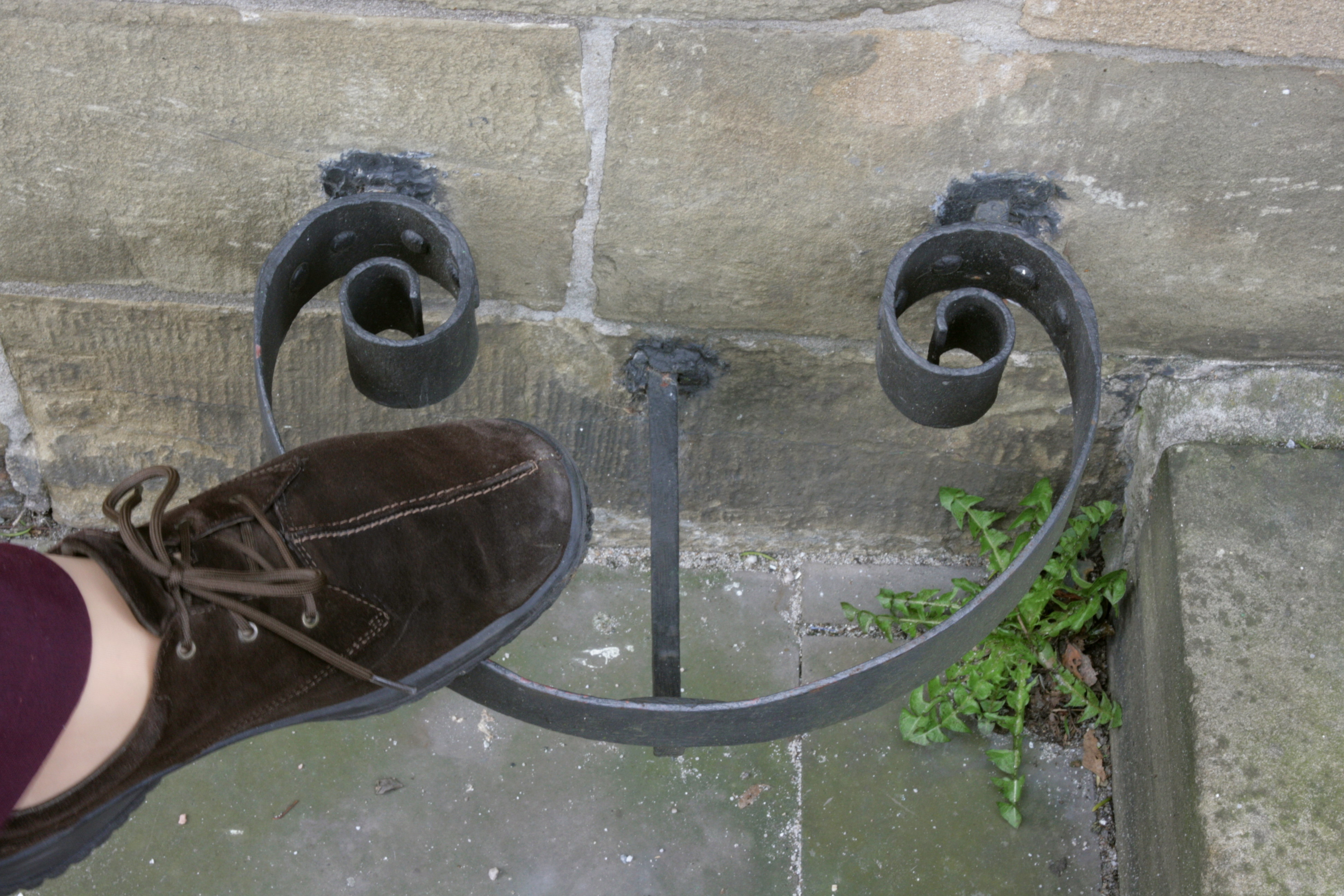 Haus Cleff, Cleffstraße 2 in Remscheid